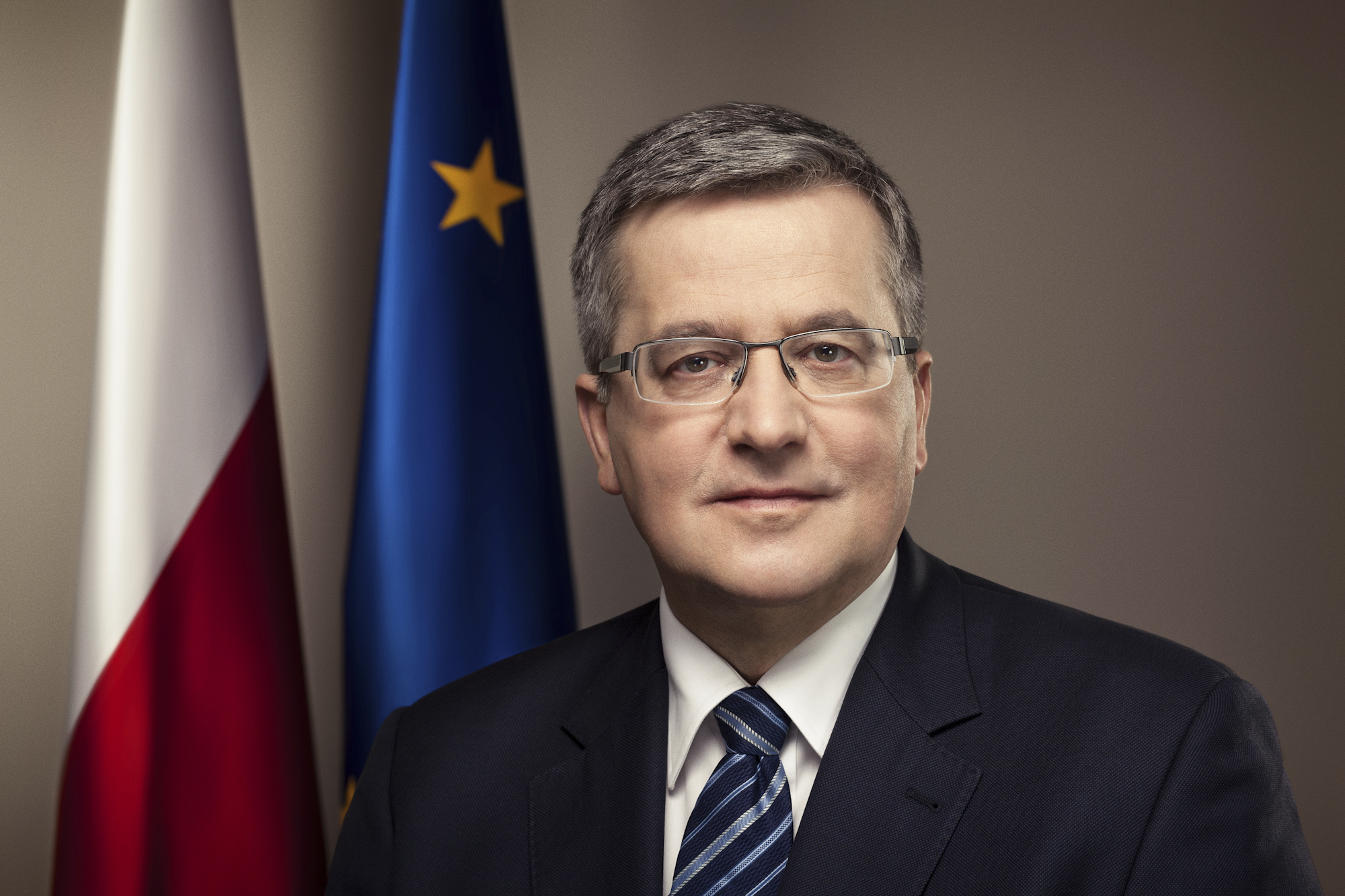 President of the Republic of Poland Bronisław Komorowski